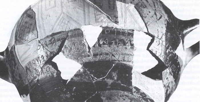 Trinkgefäß aus der griechischen Kolonie Pithekusai (Ischia)